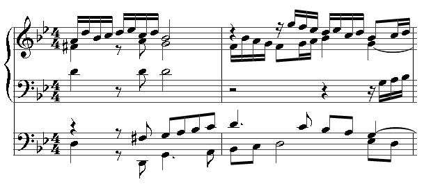 Bars 17-18 (second double pedal entrance) from Prelude and Fugue in G minor by Vincent Lübeck (c.1654-1740). Made using Sibelius 4 by Jashiin. The music quoted is in the public domain, and the image is hereby released into the public domain by Jashiin.